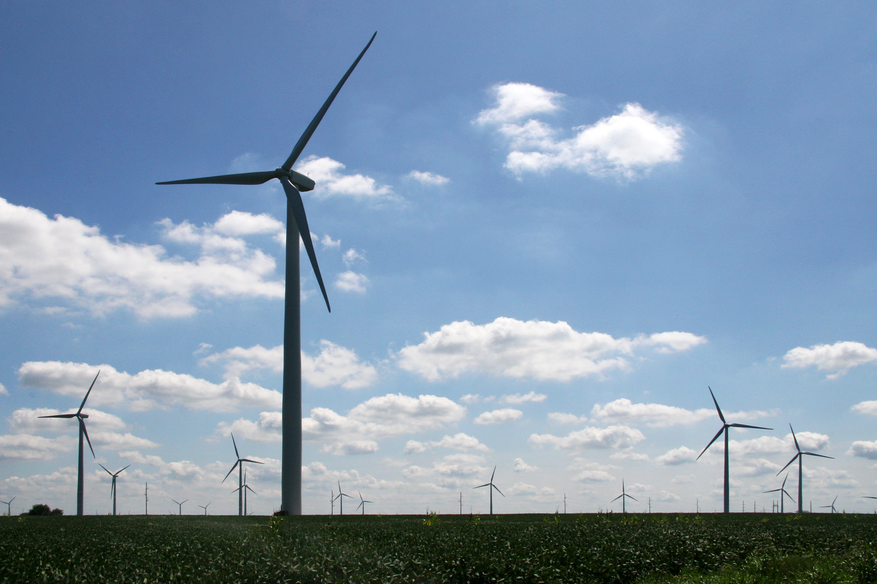 Wind turbines in northwestern Benton County, Indiana.